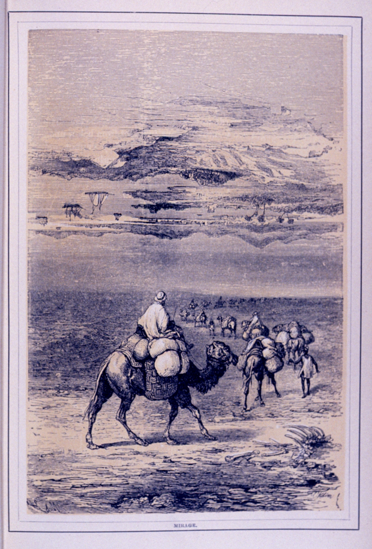 Mirage in The Aerial World